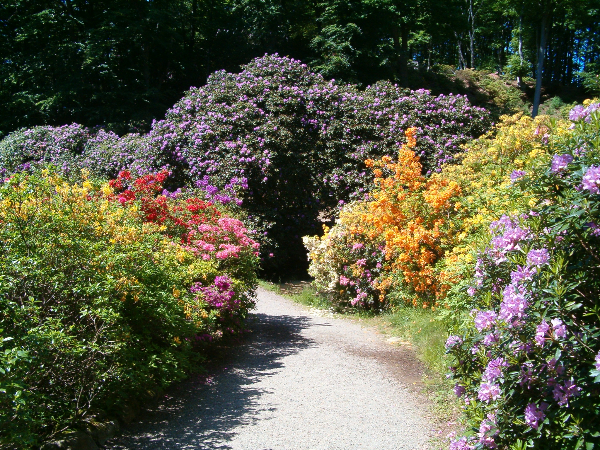 Rhododendron-trees in full bloom at the Sofiero castle in Helsingborg, Sweden.